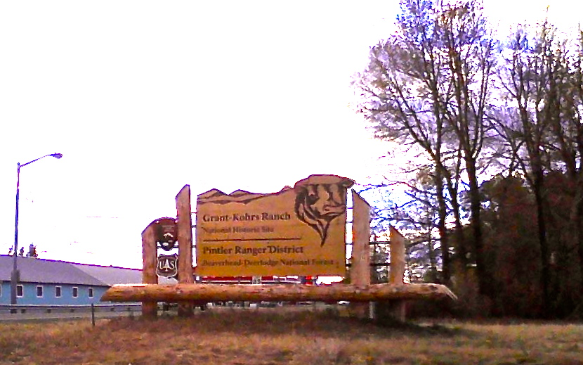 Entrance sign, Grant-Kohrs Ranch. Blue building visible in background is part of Powell County fairgrounds